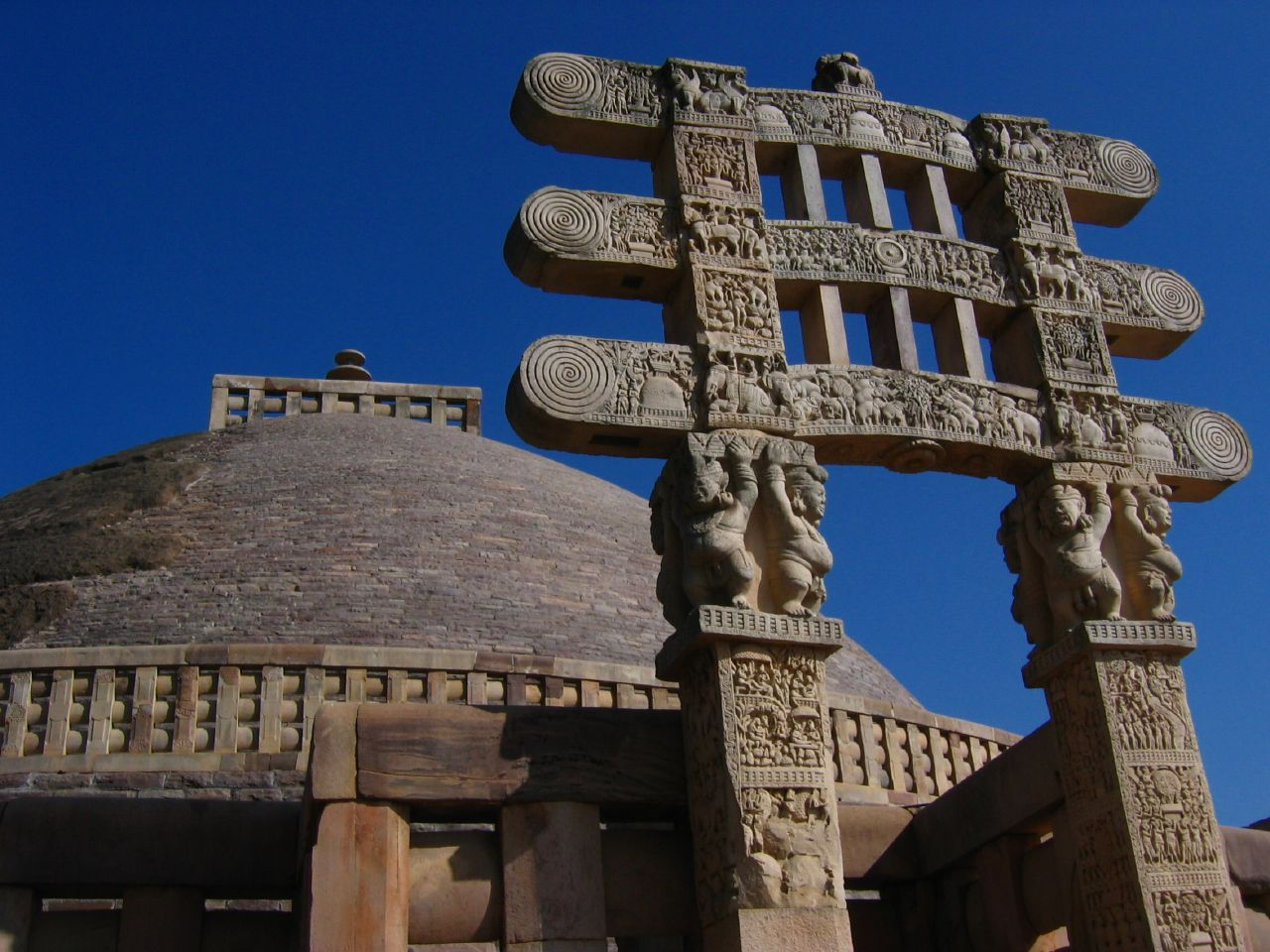 torana (gateway) of the Great Stupa at Sanchi (Madhya Pradesh, India)